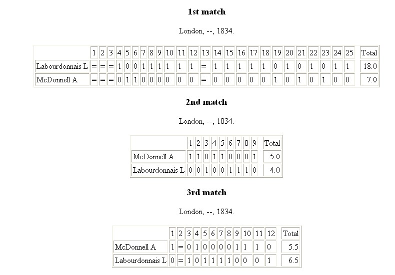 World_Chess_Championship_1834_Labourdonnais_-_McDonnell_Matches_1-3